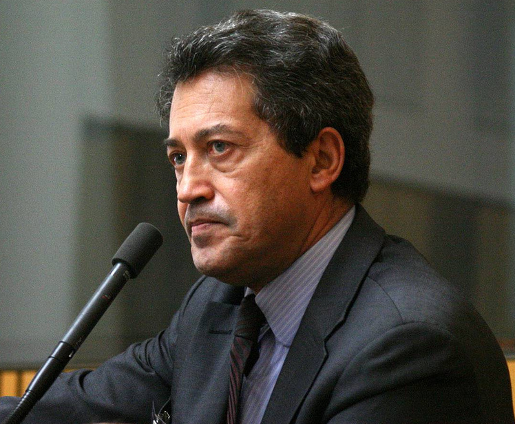 Georges Fenech in CIFS 2011